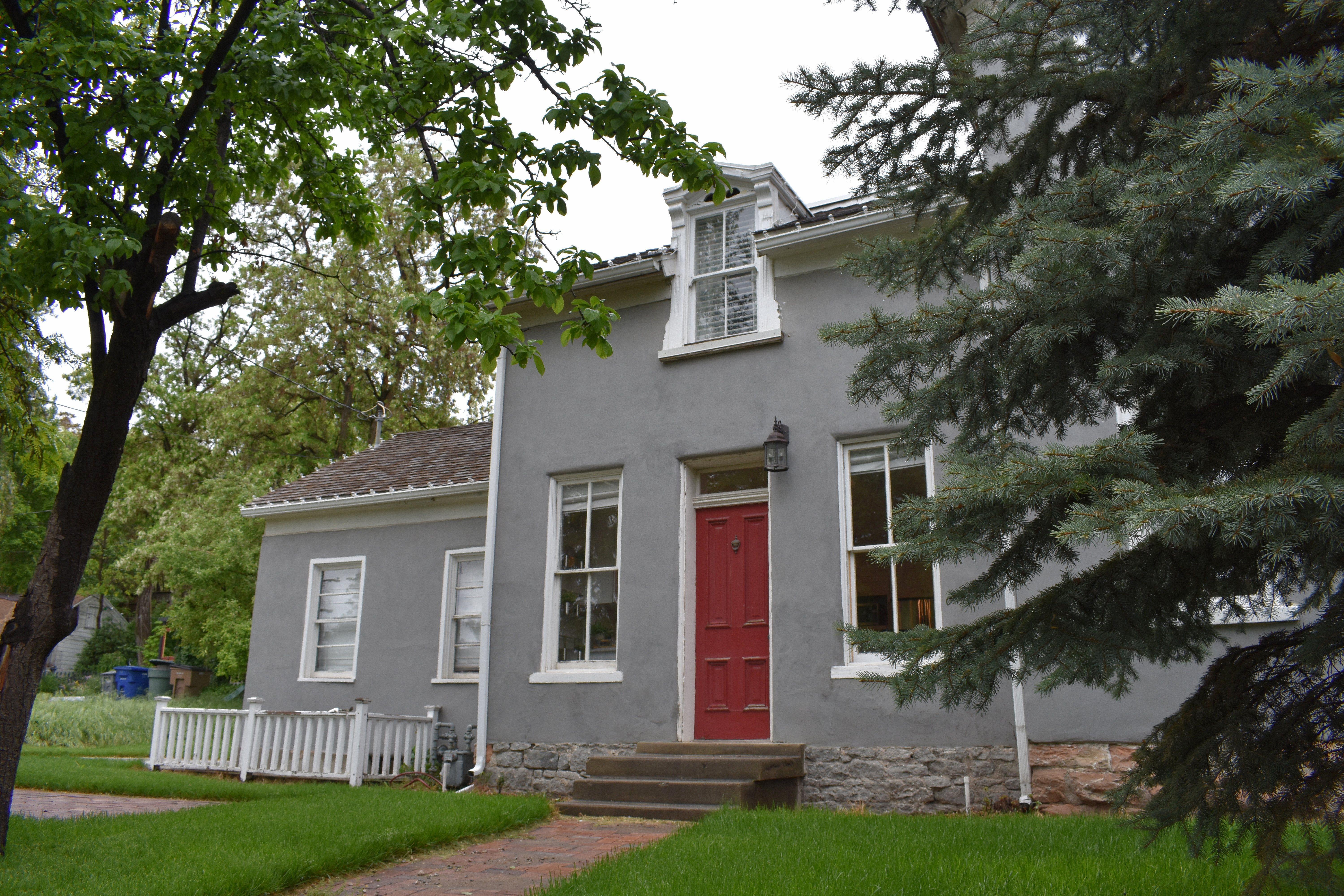 The Ebenezer Beesley House is listed on the National Register of Historic Places.